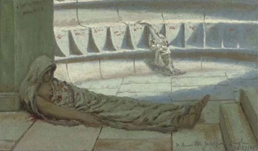 Caesar's corpse